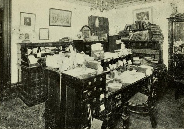 "Mrs. Dodge's Desk at Home."